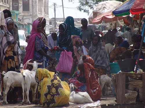 Djibouti